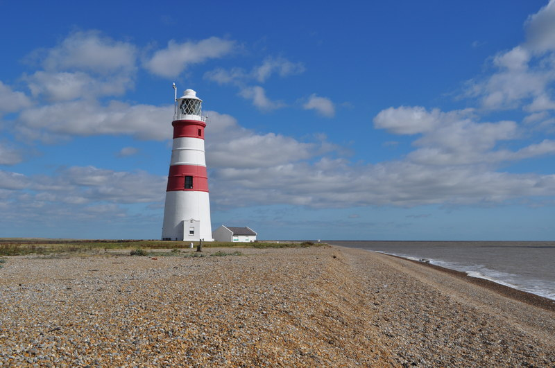 Orfordness Lighthouse, Data from Geograph: Description: I had photographed from a distance 20910441971251 but now it was time to get up close. Another reason was that I wanted to get it while it was still in use. It will be decommissioned next year, replaced with a stronger... more ICBM: 52.08304045356, 1.5738820584148 Location: 3 km from Orford, Suffolk, Great Britain.